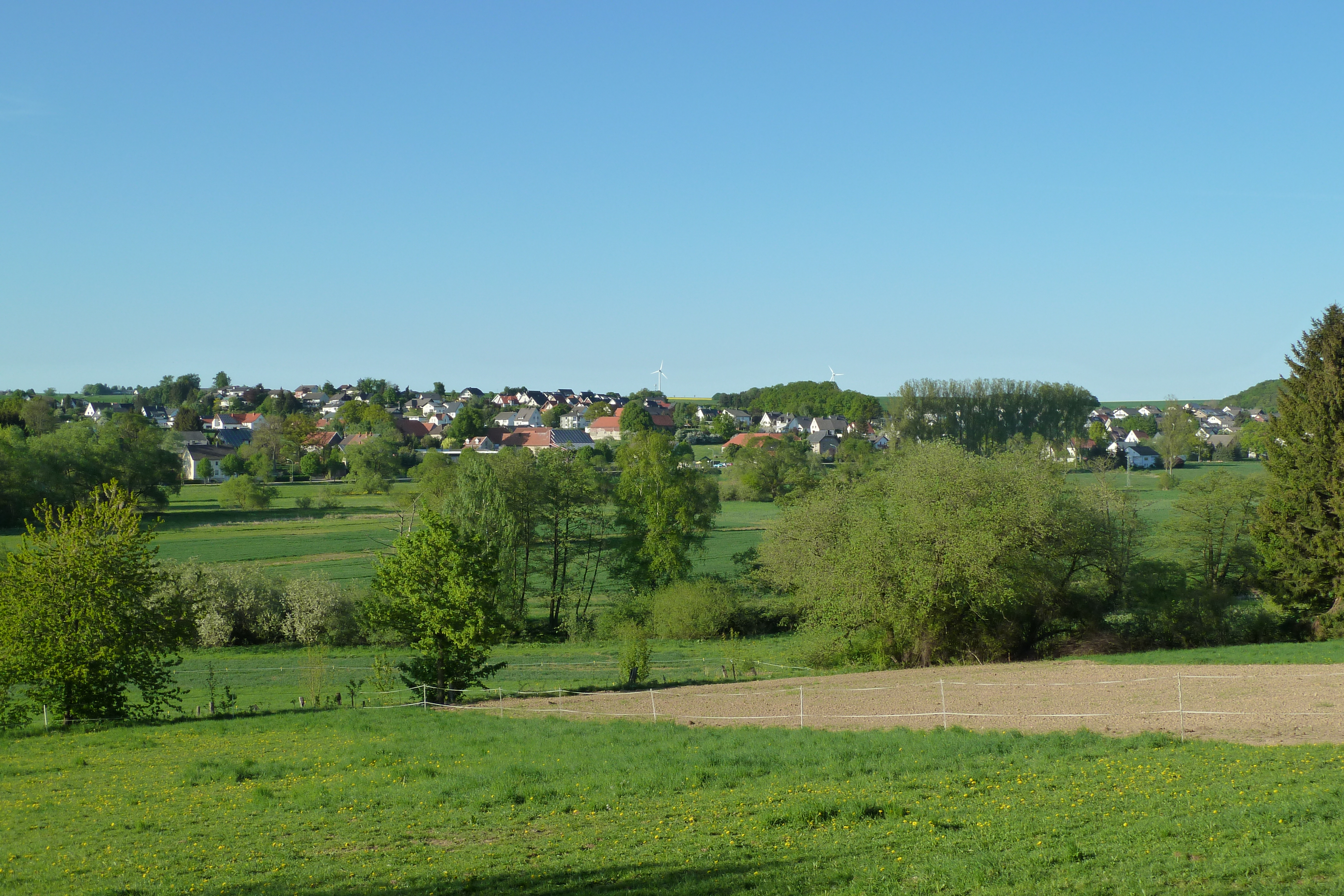 View of Warstein-Mülheim, Germany.